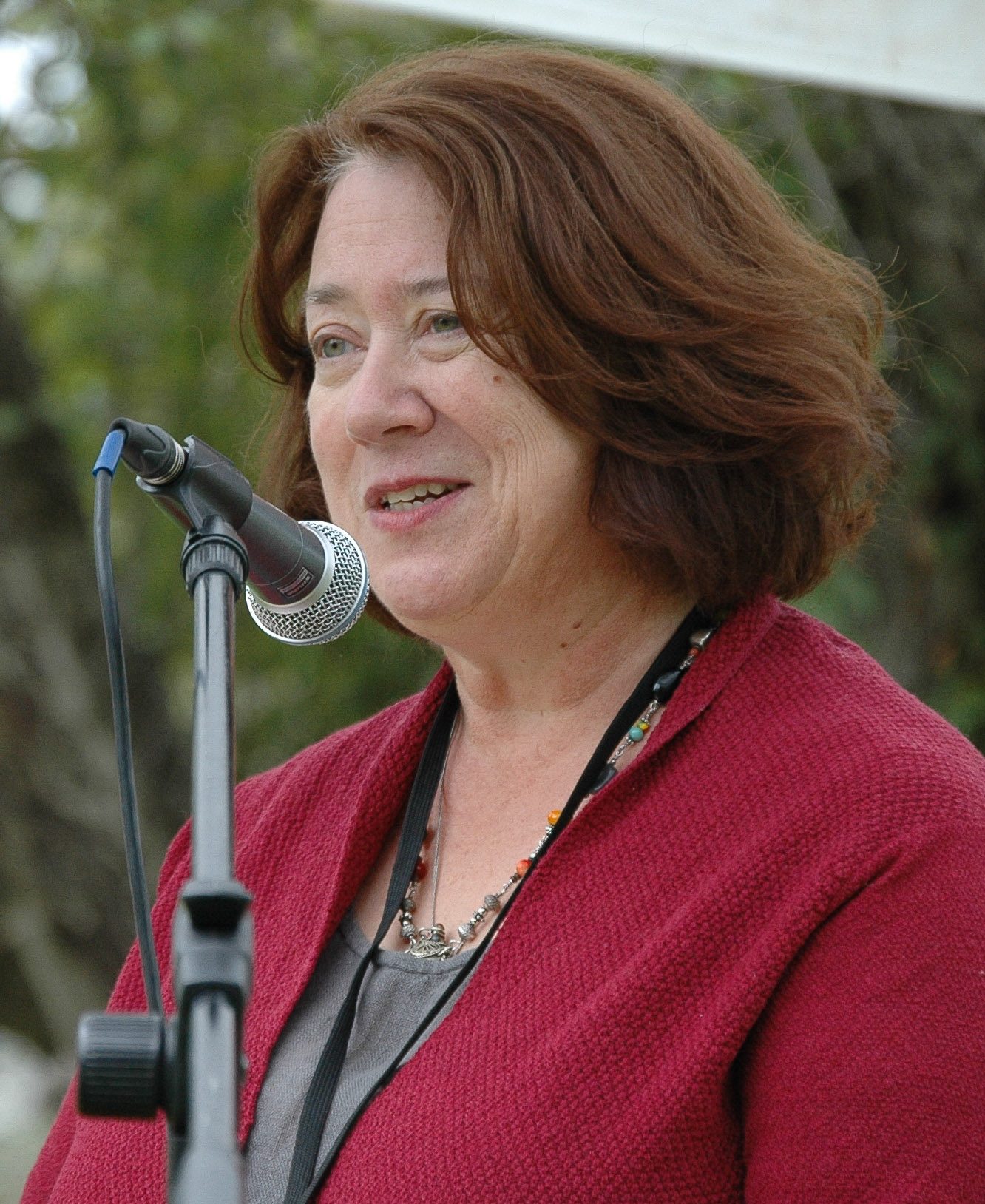 Marina Endicott at the Eden Mills Writer's Festival in 2015